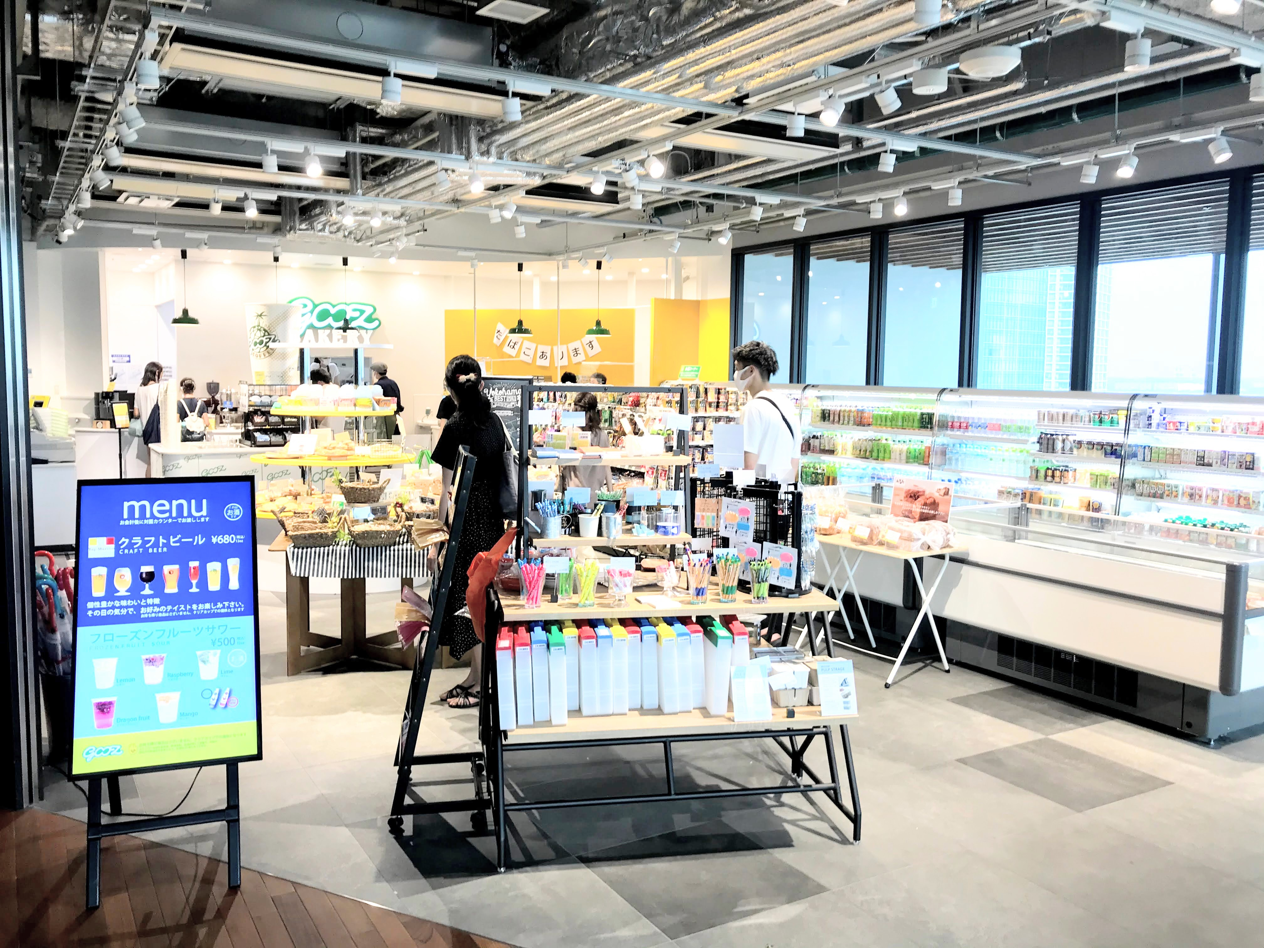 Inside the convenience store "gooz" at JR Yokohama Tower.